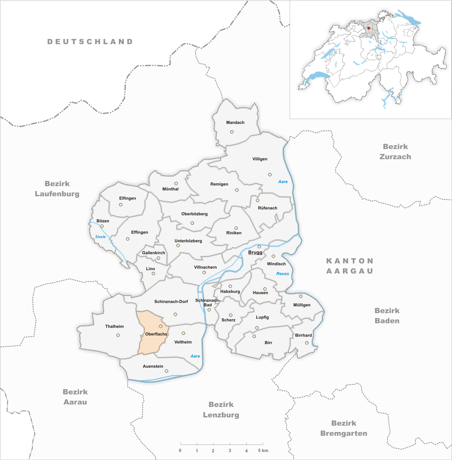 Municipality Oberflachs